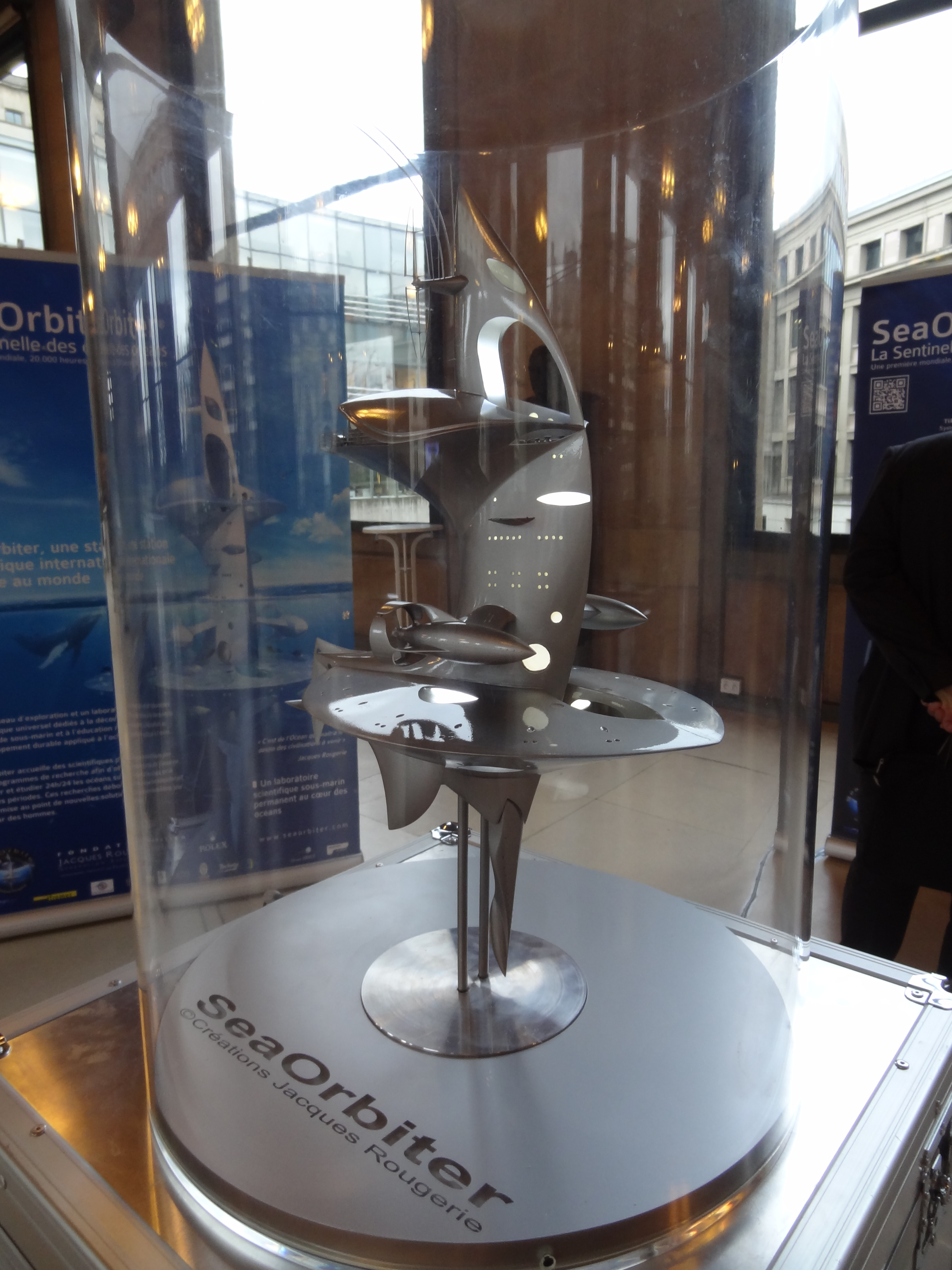 Model of the Sea Orbiter vessel to be built in 2014, as presented at the Appel pour la Haute Mer, Iena Palace, Paris.